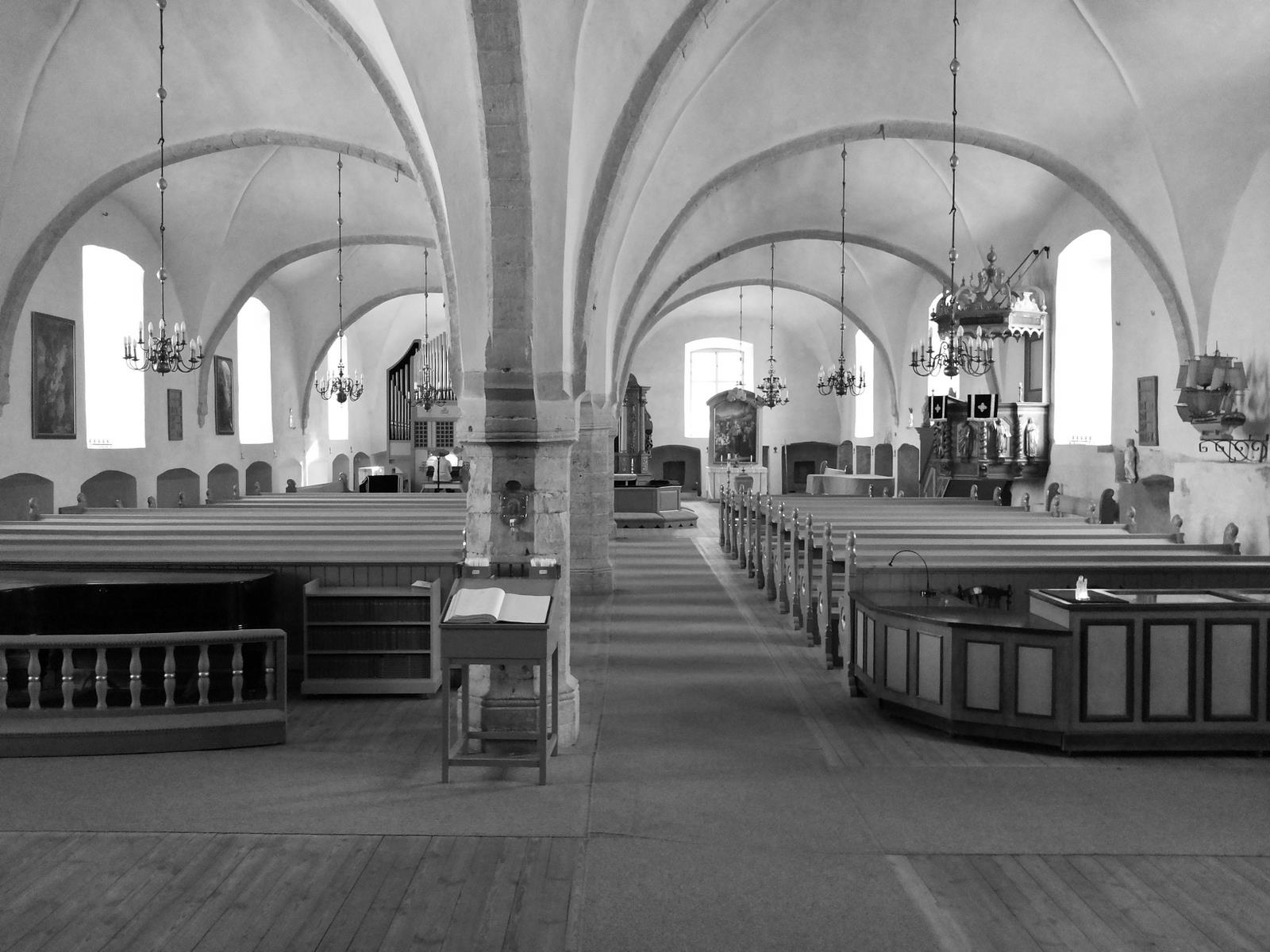 The Swedish St. Michael's Church in Tallinn, Estonia